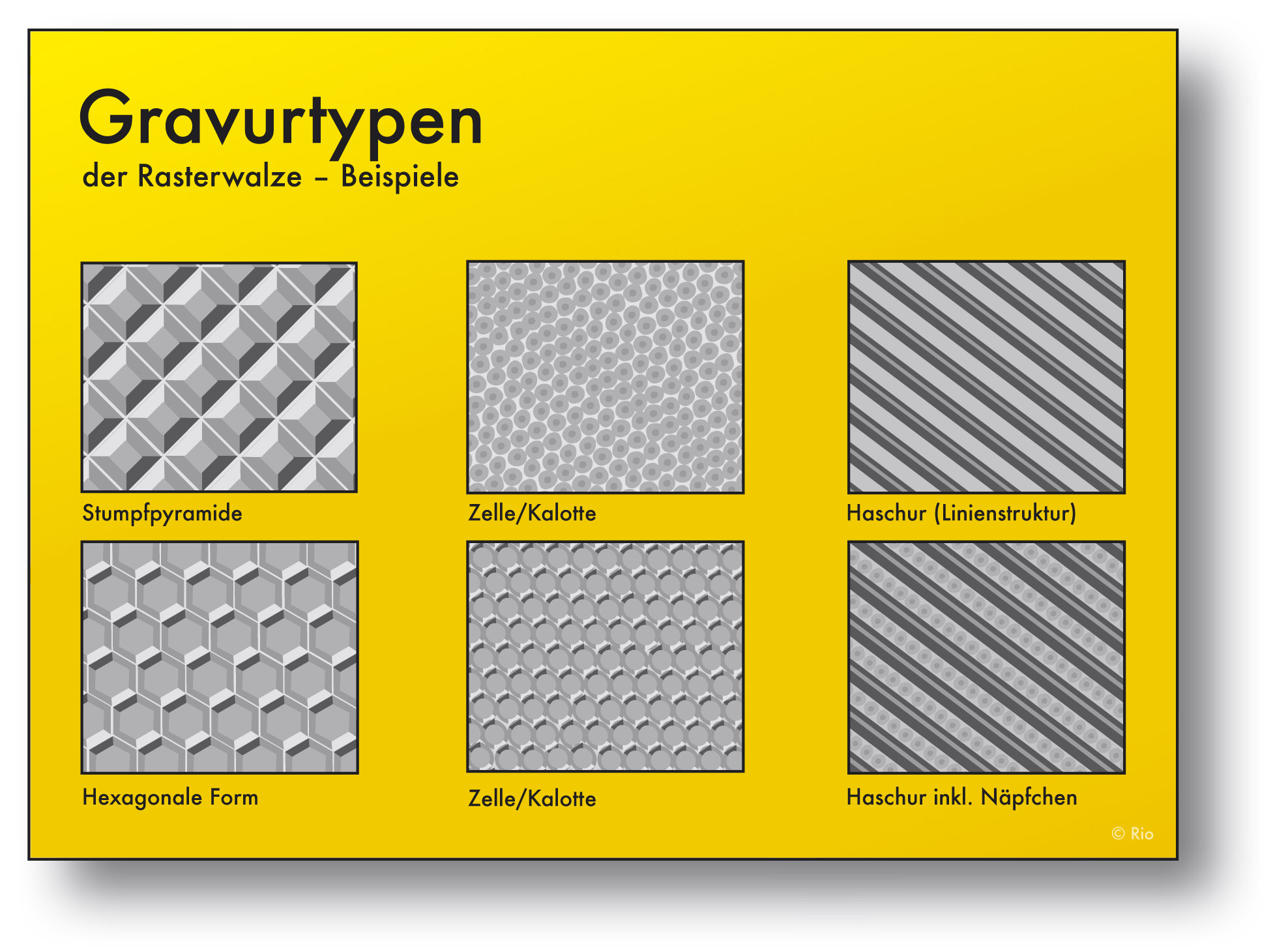 Types of engraving – Aniloxroller